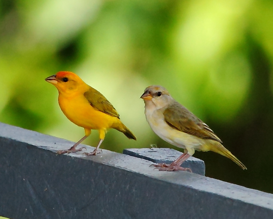 Orange-fronted Yellow Finch (couple) at Iranduba - AM - Brasil